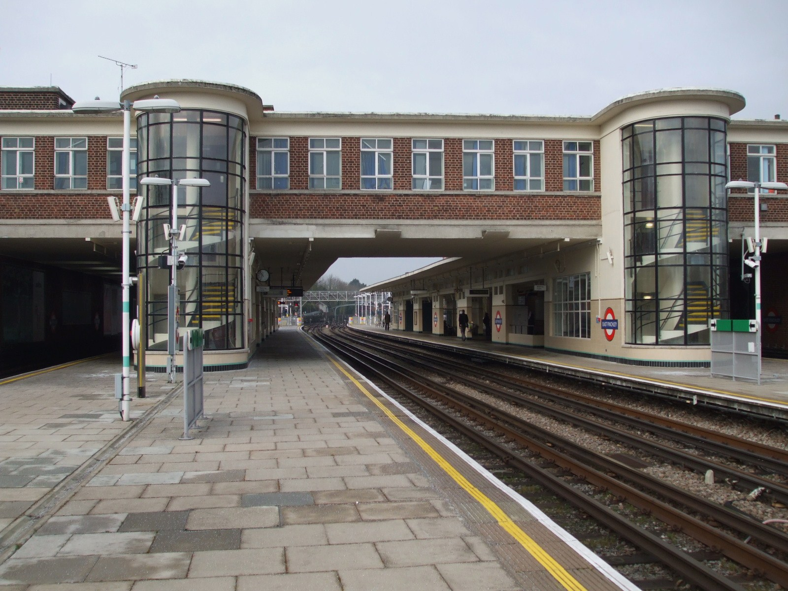 East Finchley tube station centre platforms looking north. Used by trains terminating here on their way to Highate Depot, a short distance to the south. The through tracks diverge either side of the "main line" (once the route from Finsbury Park to Finchley and beyond) before burrowing underground.